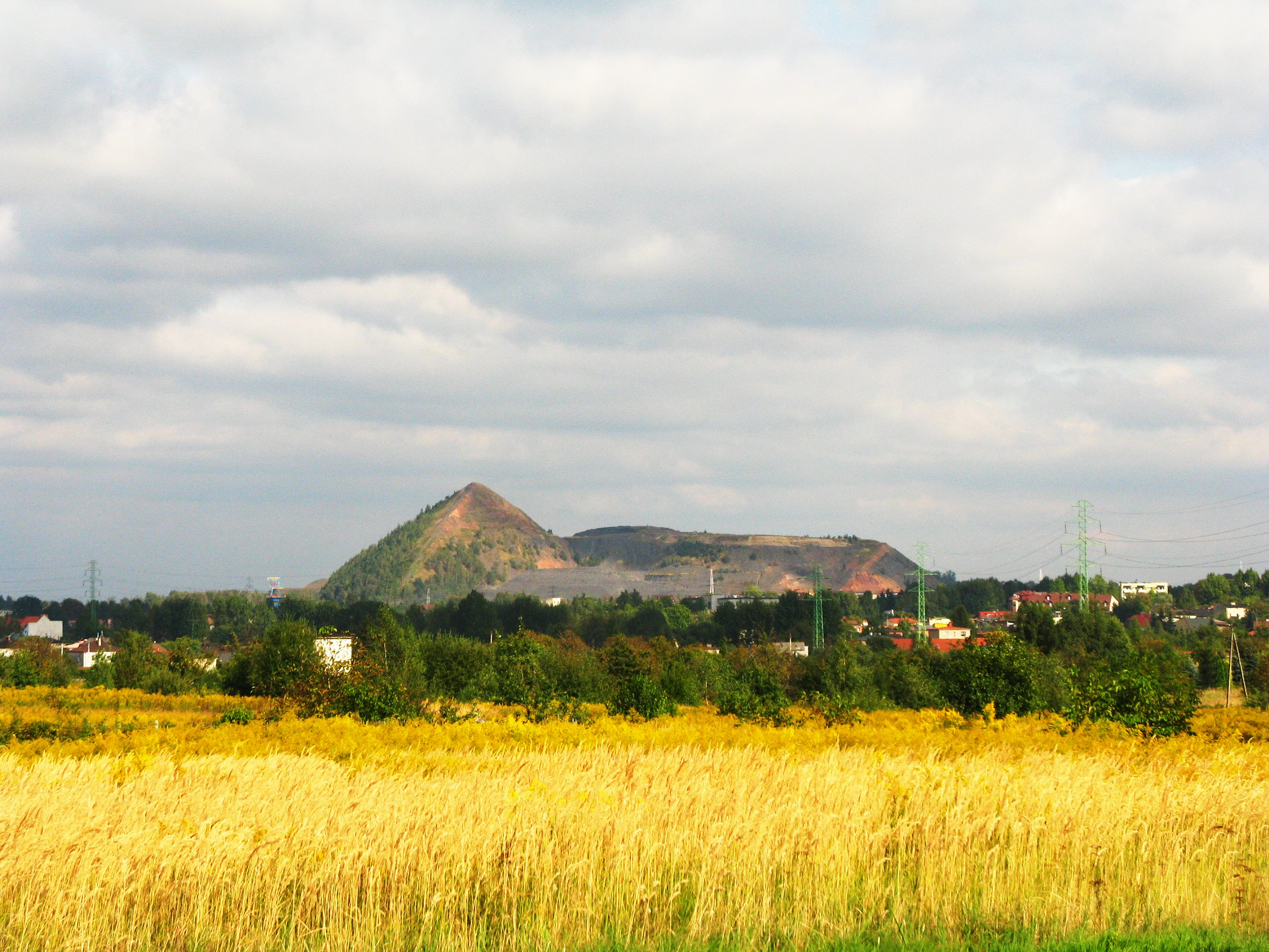 Slag heap in Rydułtowy, Silesia, Poland